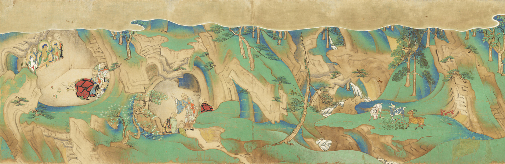 Scroll 1, section 4.